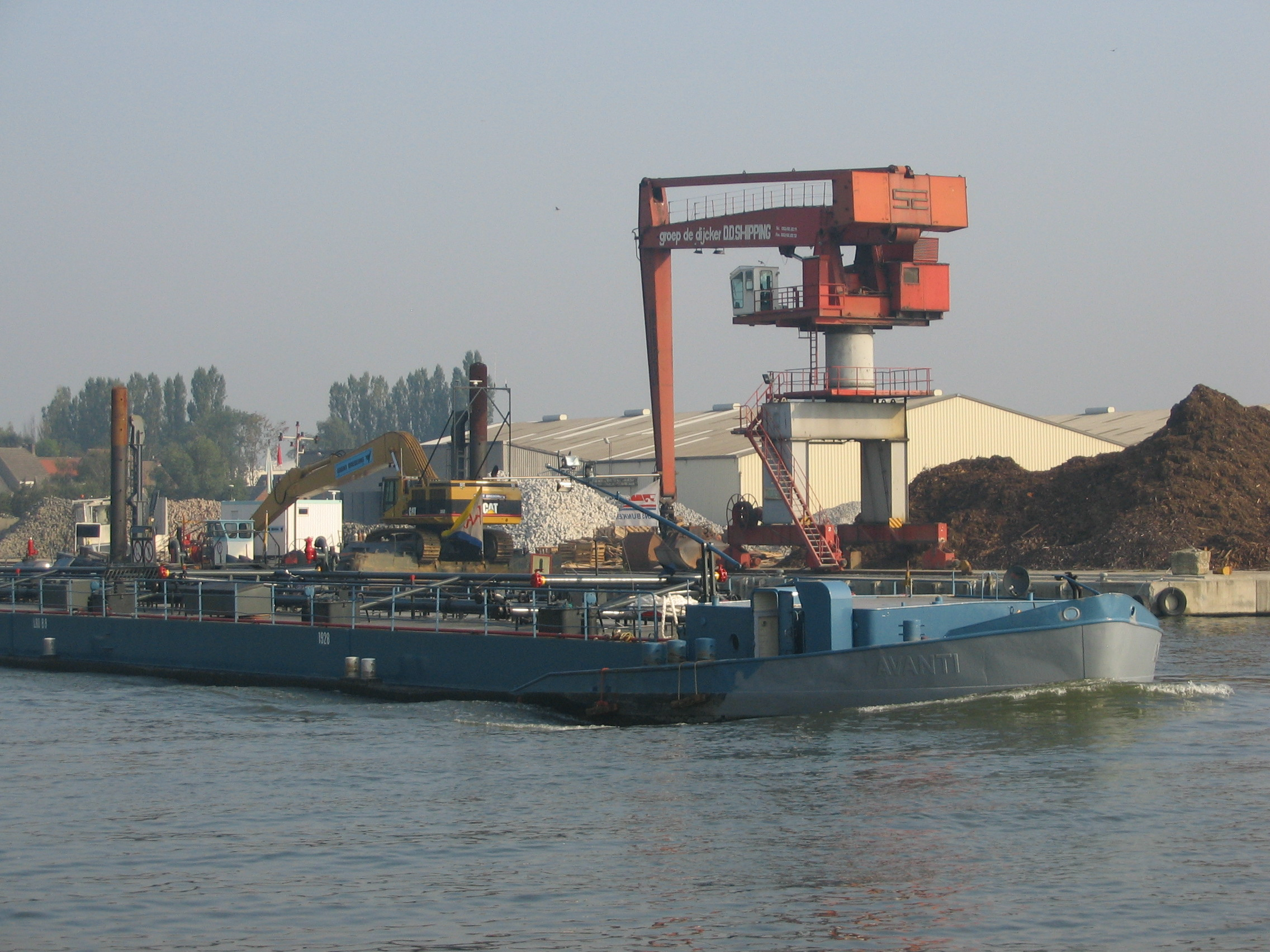 Sea canal Brussel Schelde - loading crane by Verbrande bridge.